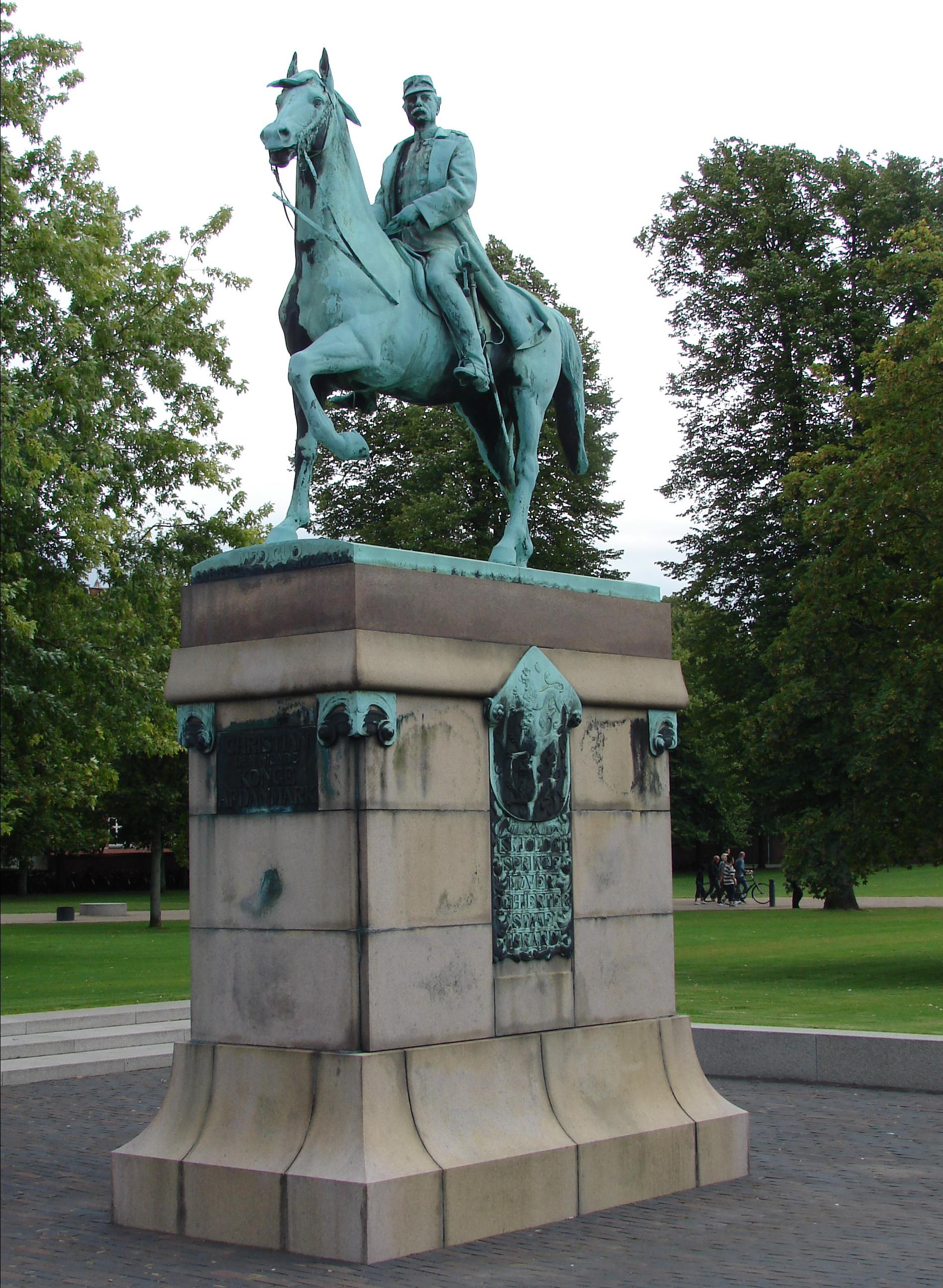 Christian IX foran Odense Slot, Fyn